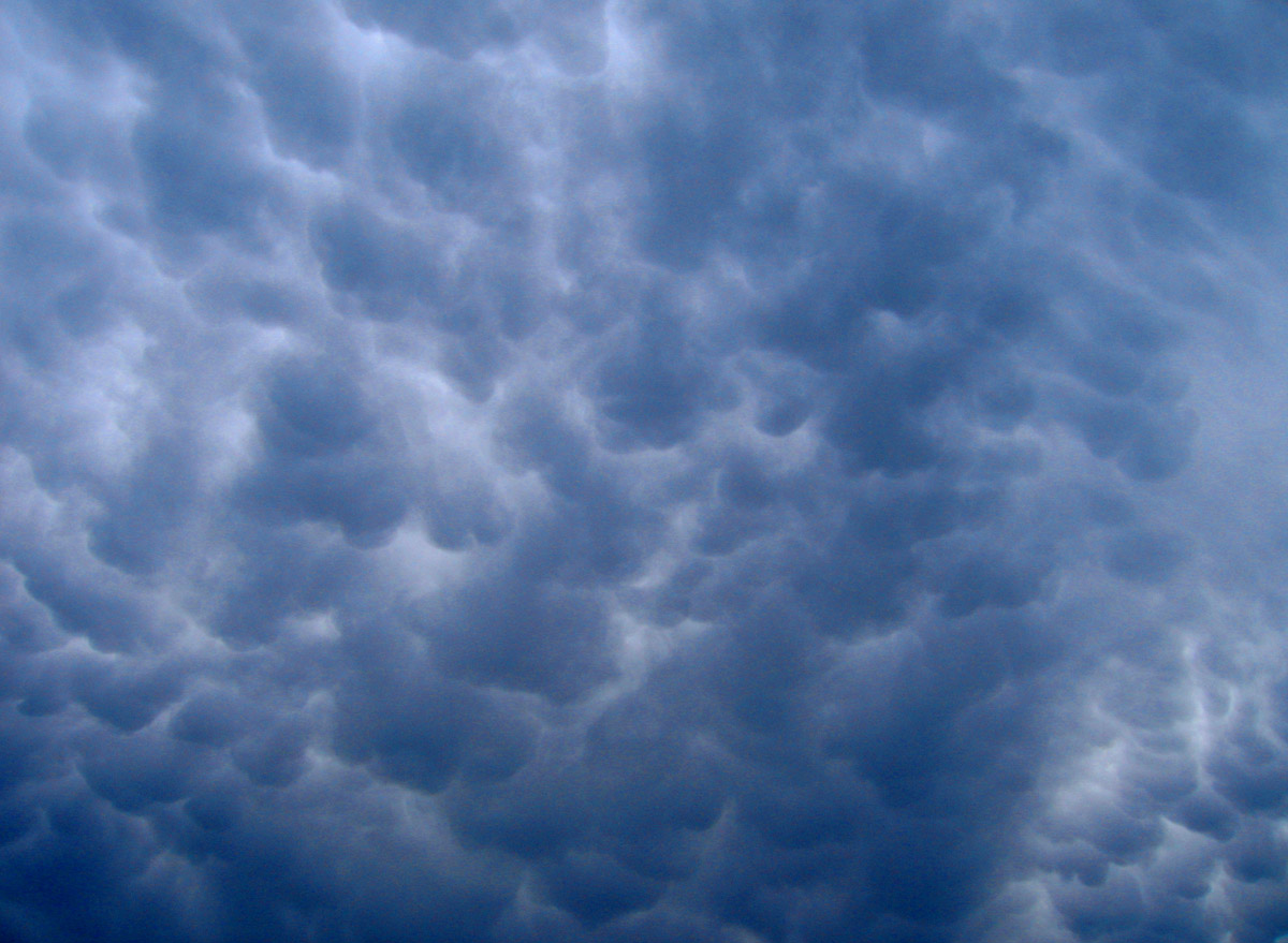 Rainy cloud